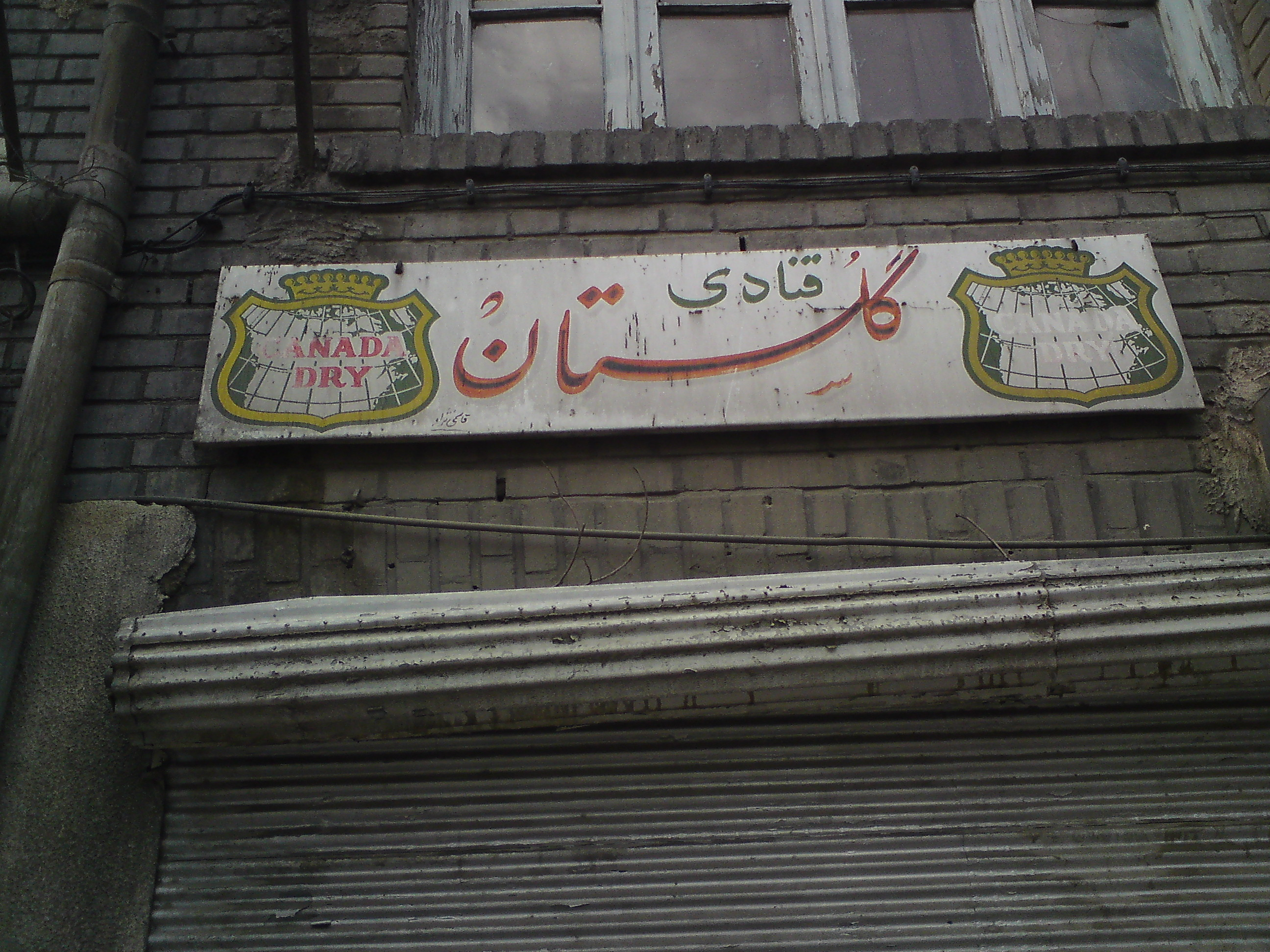 Canada Dry logo beside an old shop name